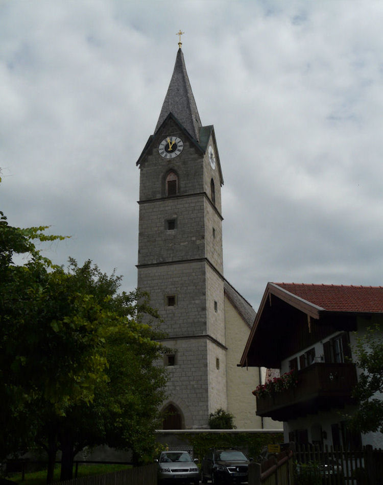 St. Thomas and St. Stephan, Seeon-Seebruck, Germany